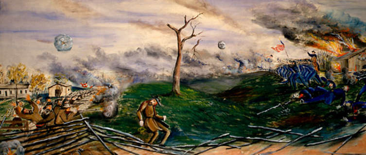 Portrait of the action at Russell's Farm at the Battle of Perryville, painted shortly after the end of the war by William D.T. Travis, who served as an artist for Harper's Weekly during the conflict. Part of a larger panorama currently owned by the Smithsonian Institute.